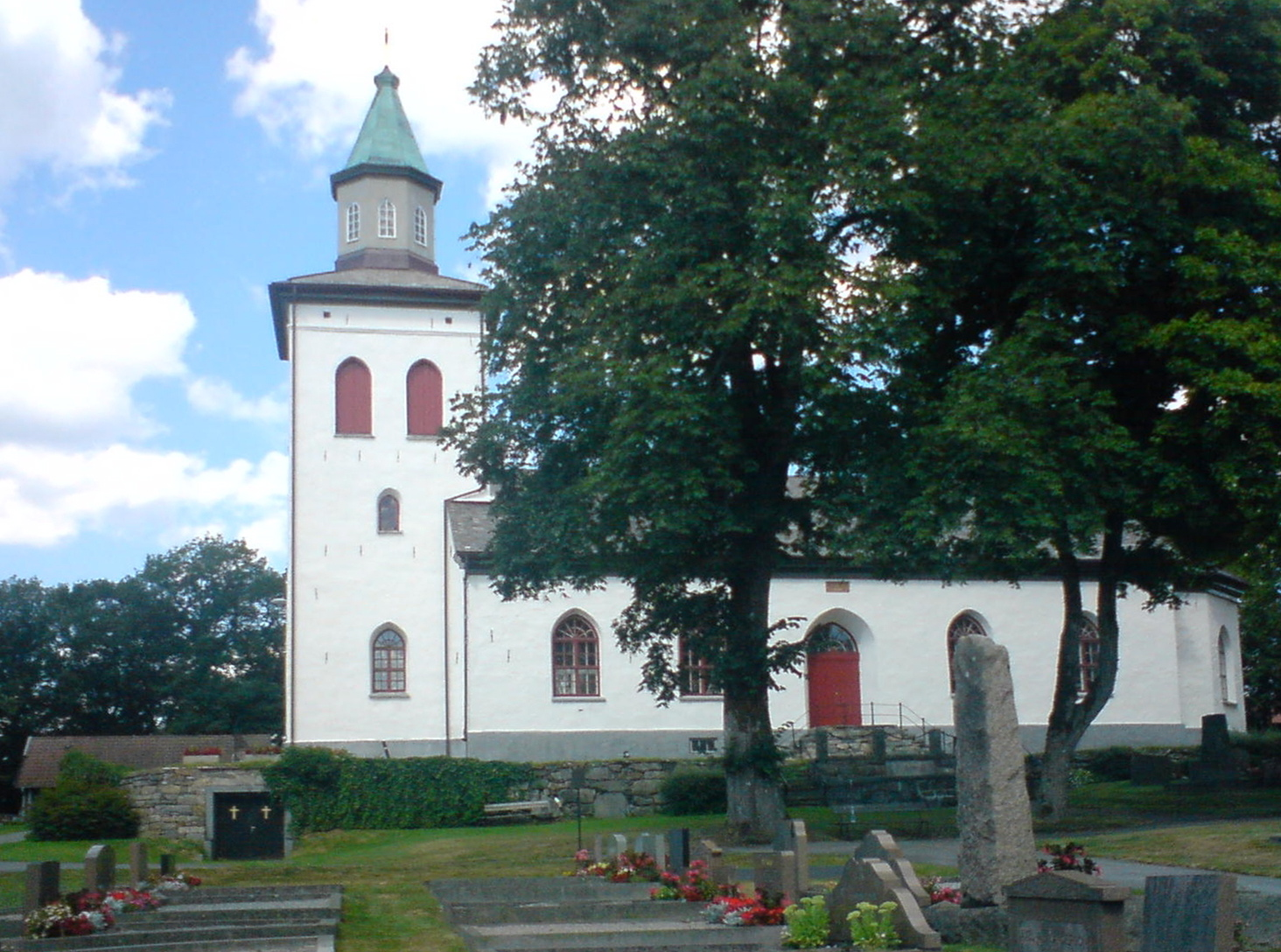 The parish church of Ucklum, Sweden. In Swedish the church is called Ucklums kyrka. This image is from the south.